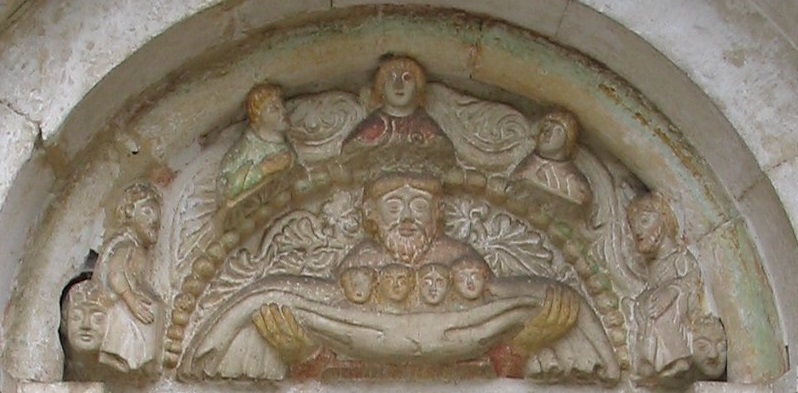 Portal bosom of Abraham